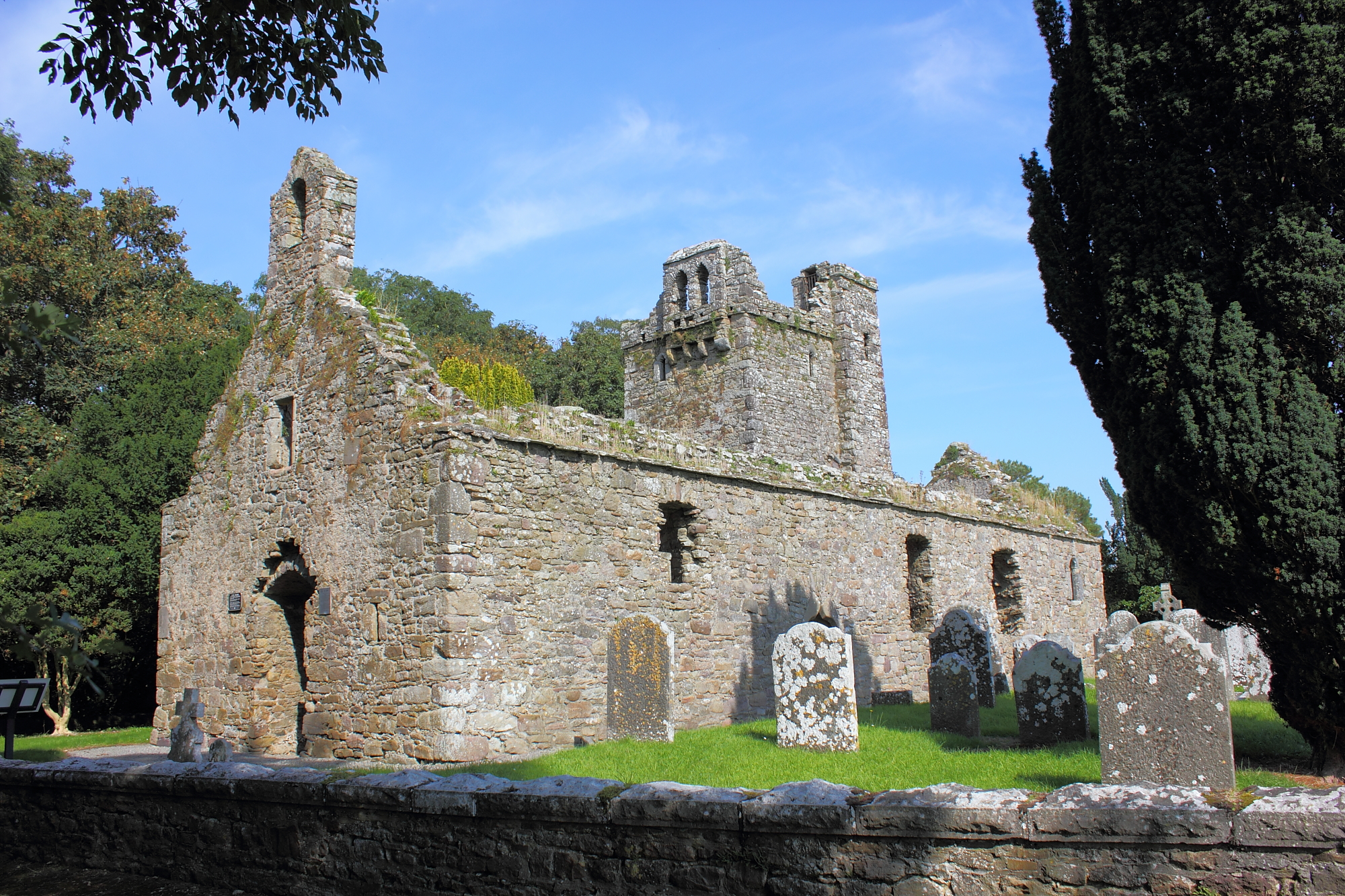 This photograph was taken by Edmund Keilthy as part of the "wiki loves monuments" competetion and it's an image of Kilfane Church, Kilfane Thomastown Co.Kilkenny. This Church, A 14th Century Edifice with castellated presbytery, was originally dedicated to St.Paan. Note the sedilia and traces of consecration crosses.